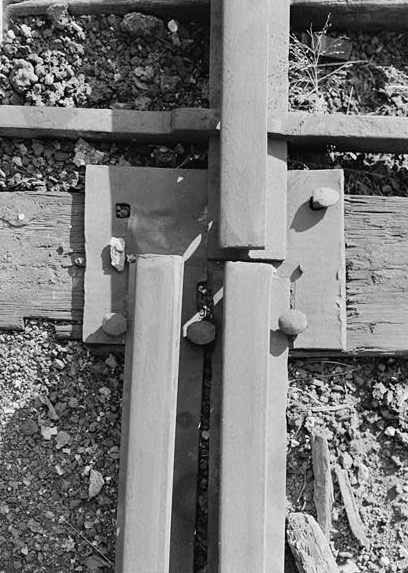 Metadata from the Library of Congress: Title: Detail view of rails, view of point where the single track (top) divides into two tracks. Just above the wooden cross tie, the top rail is held in by an iron bridle. This iron bridge connects to a vertical lever located on the switchstand which stands adjacent to the track. The lever could be used to move the top rail's alignment from one lower rail to another lower rail - East Broad Top Railroad & Coal Company, State Route 994, West of U.S. Route 522, Rockhill Furnace, Huntingdon County, PA Creator(s): Boucher, Jack E., creator Date Created/Published: 1986 Medium: 5 x 7 in. Reproduction Number: HAER PA,31-ROCFN,1--26 Call Number: HAER PA,31-ROCFN,1--26 Repository: Library of Congress Prints and Photographs Division Washington, D.C. 20540 USA Place: Pennsylvania -- Huntingdon County -- Rockhill Furnace Latitude/Longitude: 40.24026, -77.90032 Collections: Historic American Buildings Survey/Historic American Engineering Record/Historic American Landscapes Survey Bookmark This Record